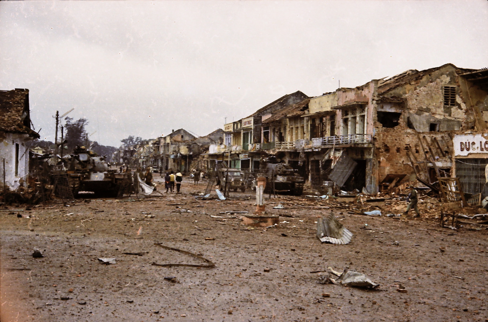 Destroyed buildings and disabled tanks in Hue